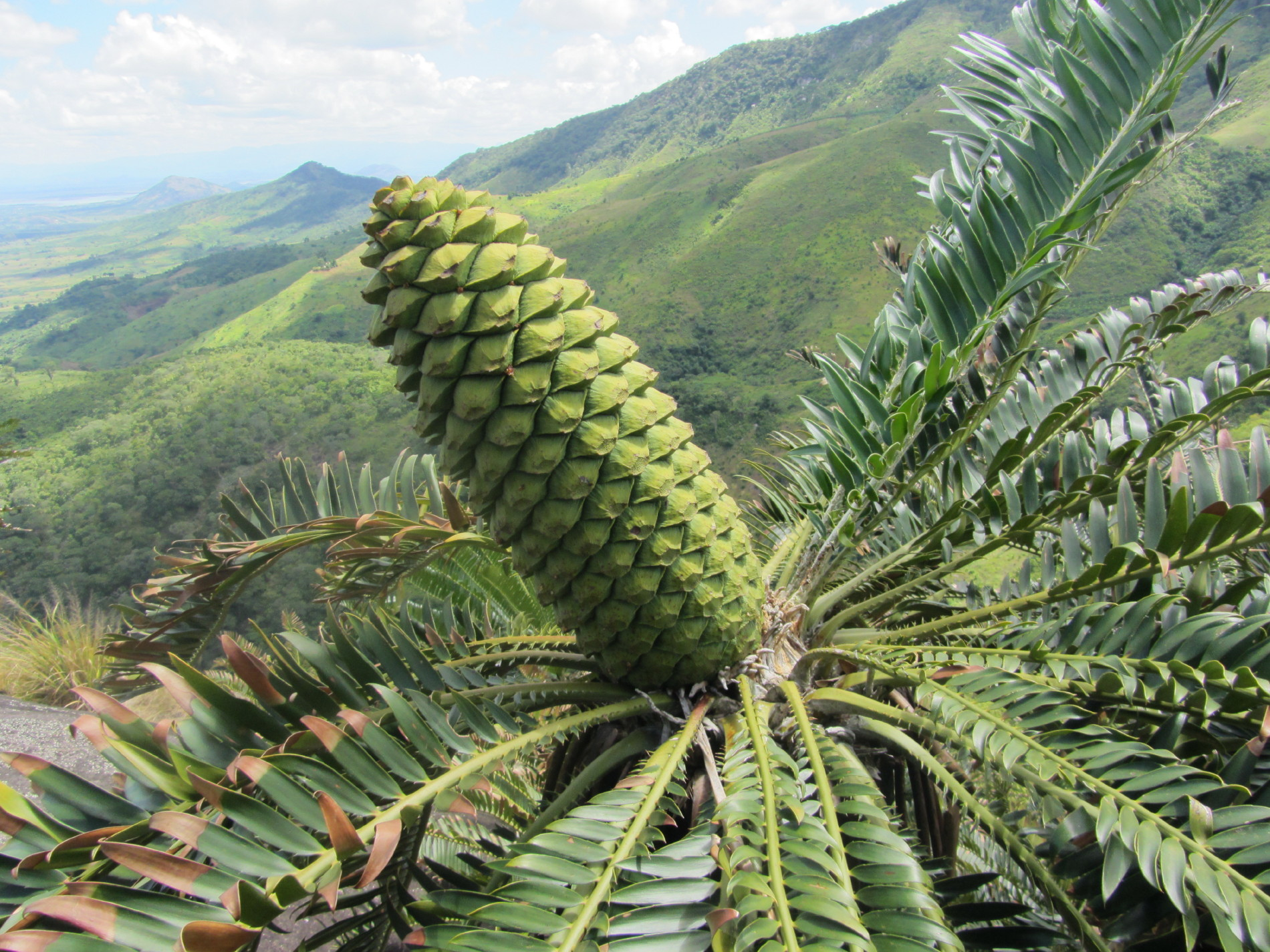 On Mount Garuso in Manica province.